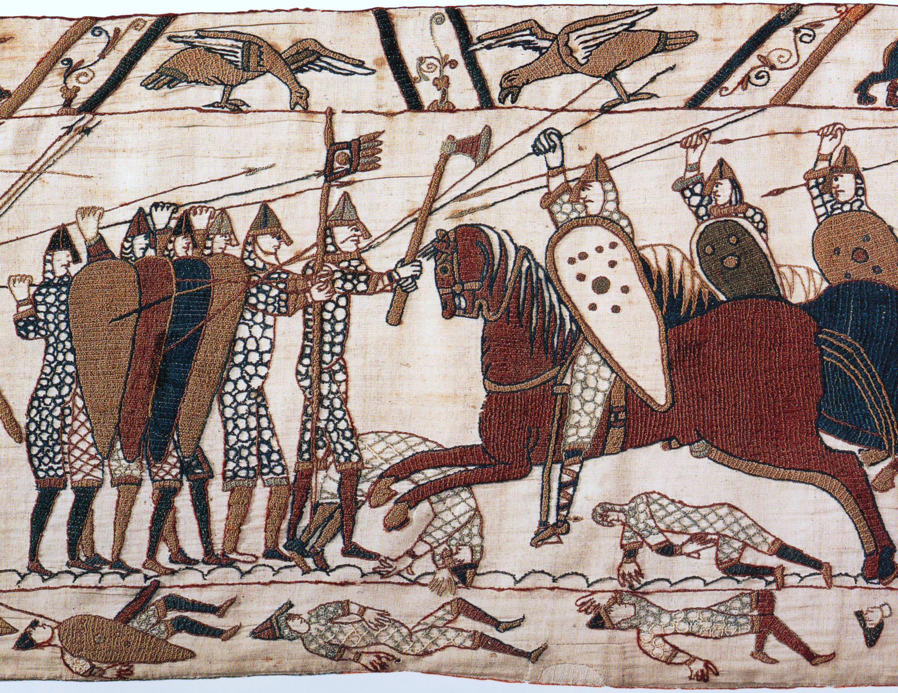 Part of scene 52 of the Bayeux Tapestry. This depicts mounted Normans attacking the Anglo-Saxon infantry.